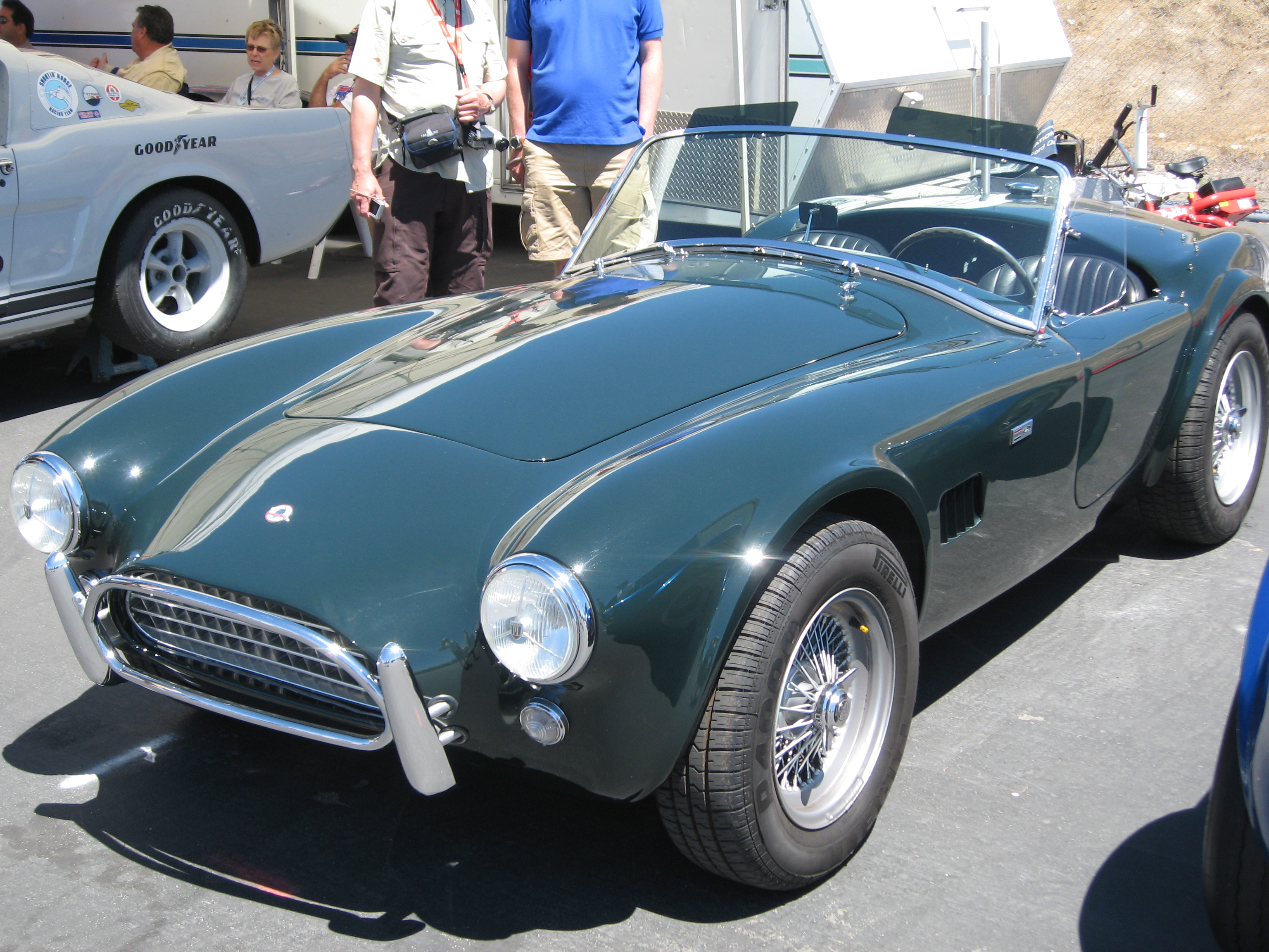 AC Cobra in the pits at Laguna Seca's Historic car races.IMG_7156